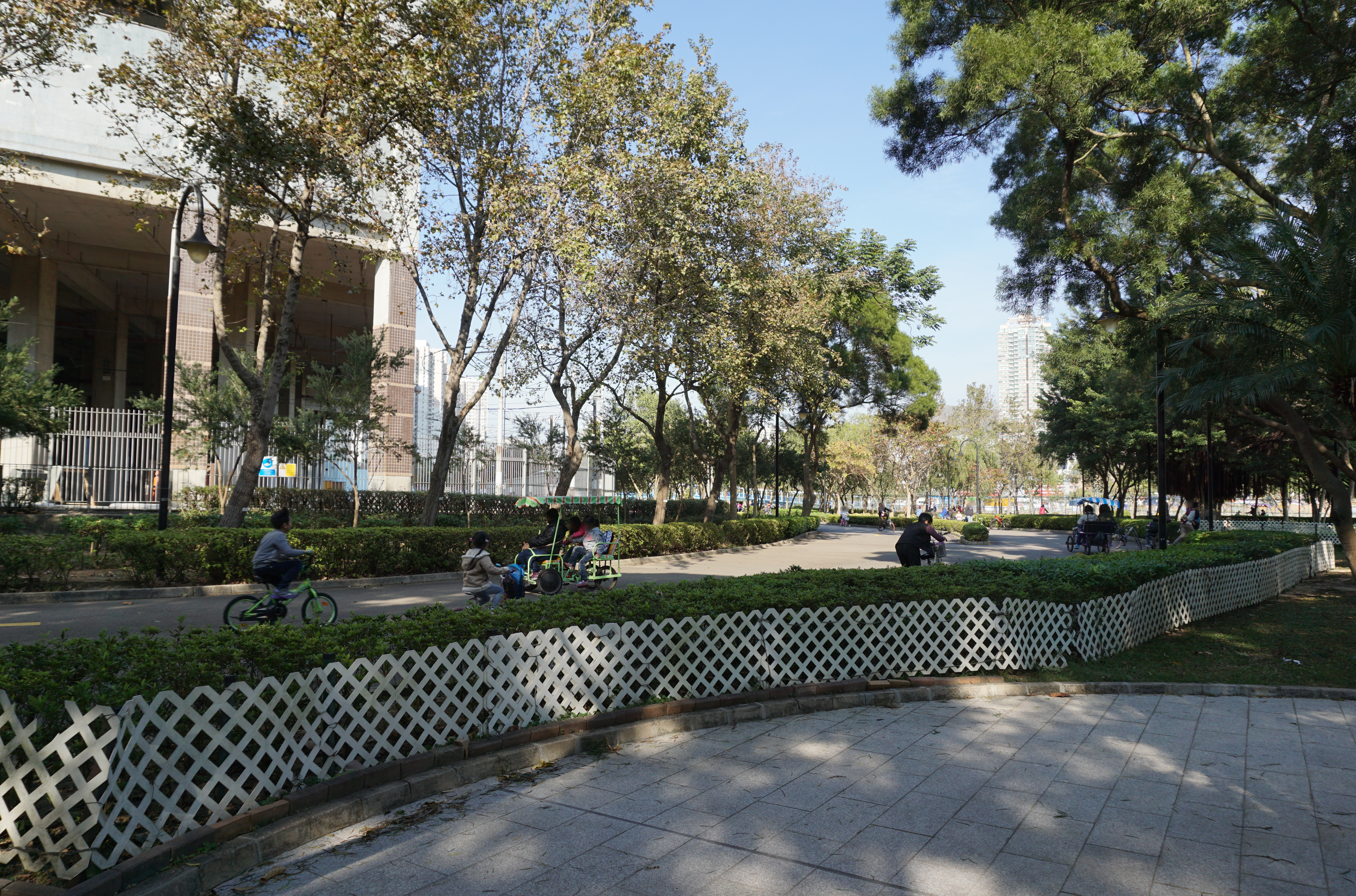 Wu Shan Recreation Playground in Tuen Mun, Hong Kong.